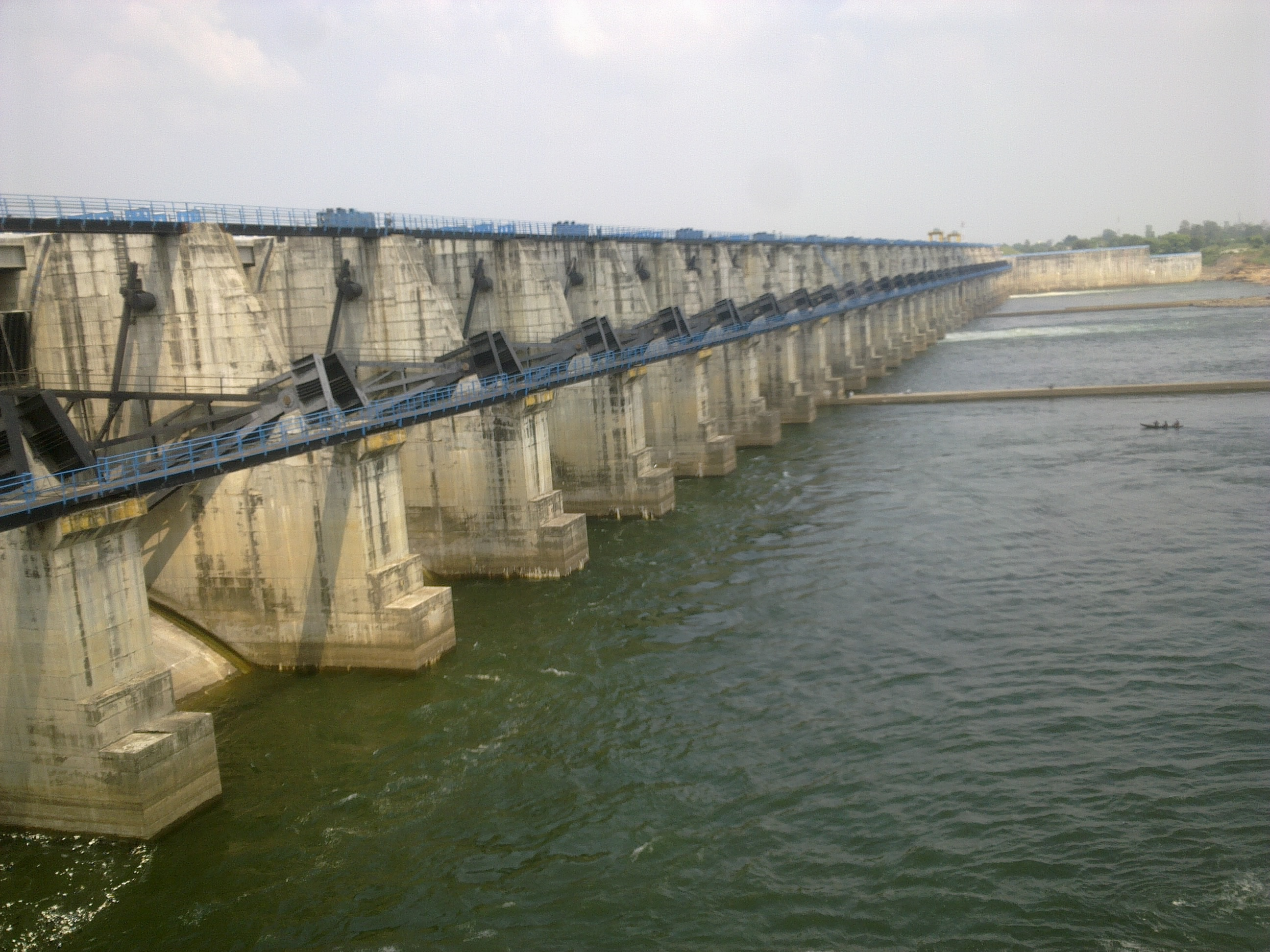 The Dam is built on a famous river Wainganga which one of tributaries of Godavari River.